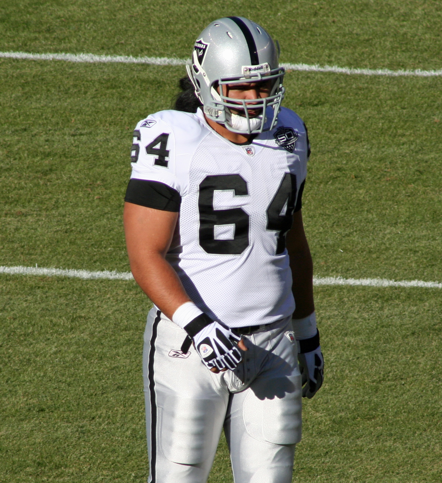 Samson Satele, a player on the Oakland Raiders American football team.